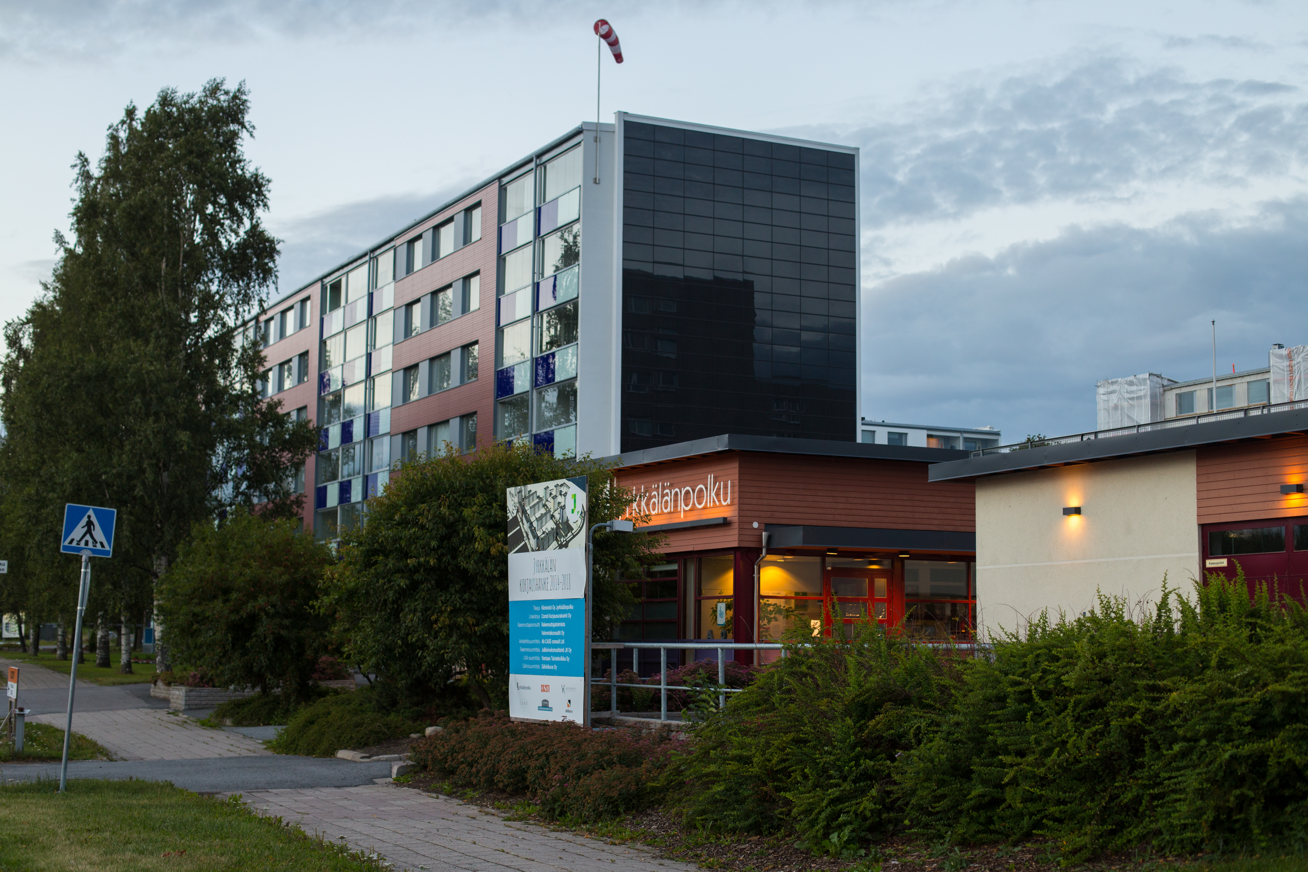 Newly renowated building in Jyrkkälä, Turku. One wall is covered with solar panels .